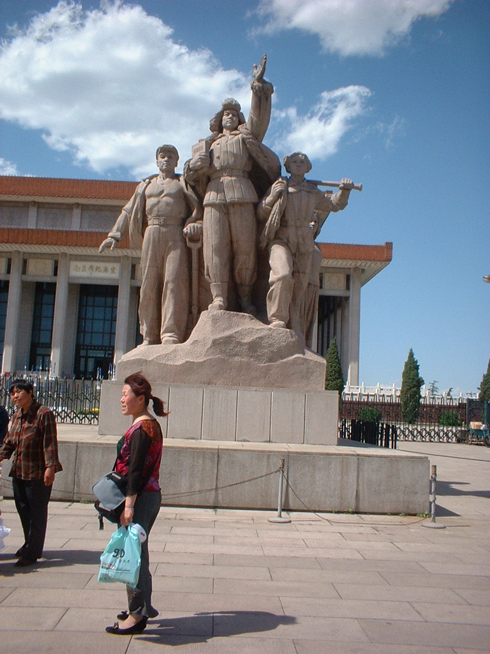 In front of chairman Mao MausoleumTiananmen Square